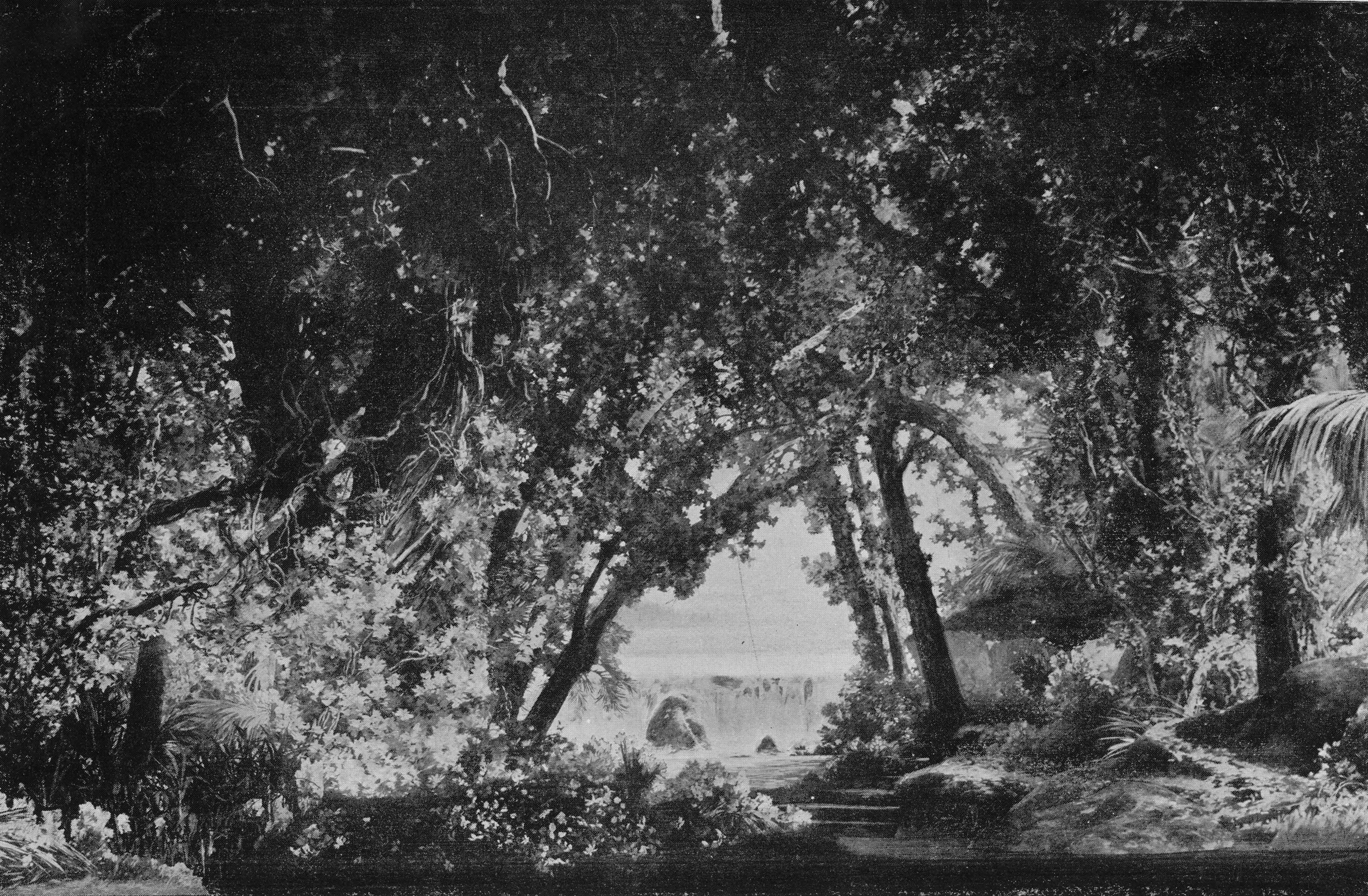 Gluck - Armide - Esquisse d'Amable pour Armide (IIIe Acte) - Paris, Théâtre de l'Opéra Garnier, 12-04-1905